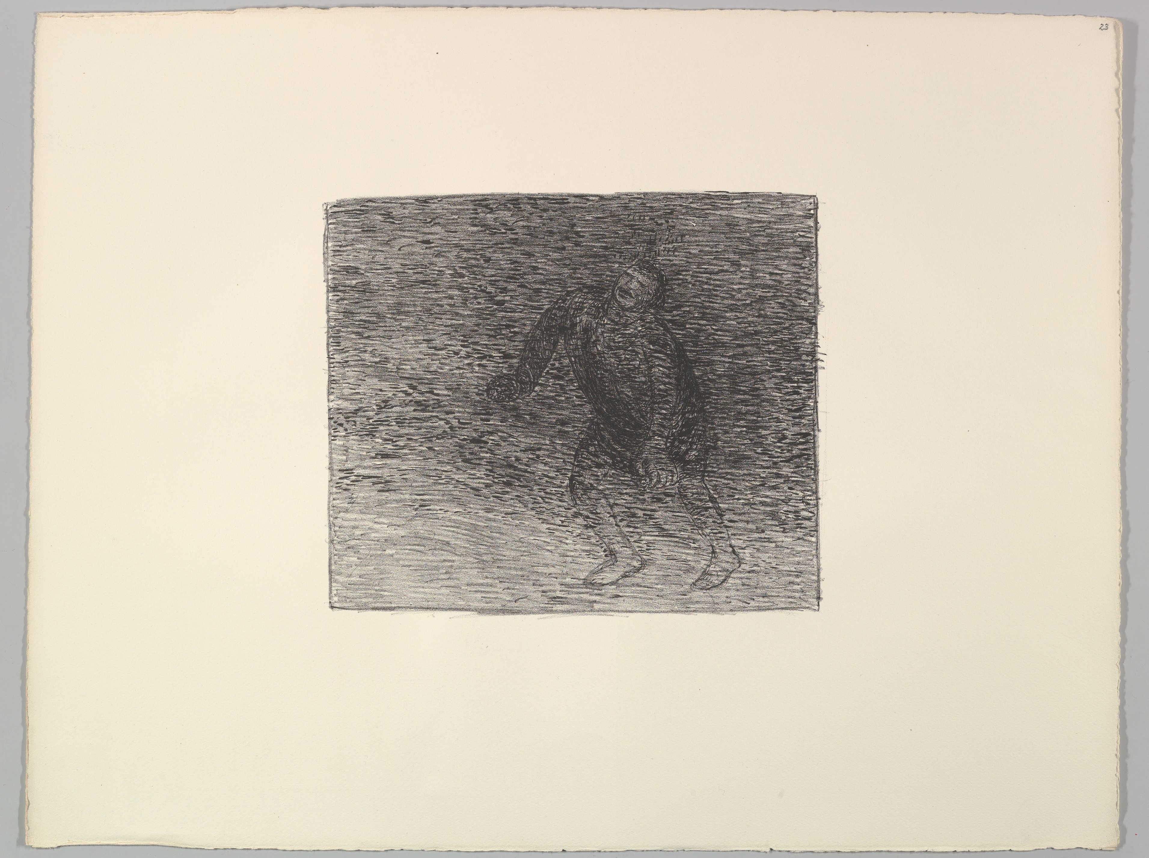 Print; Prints